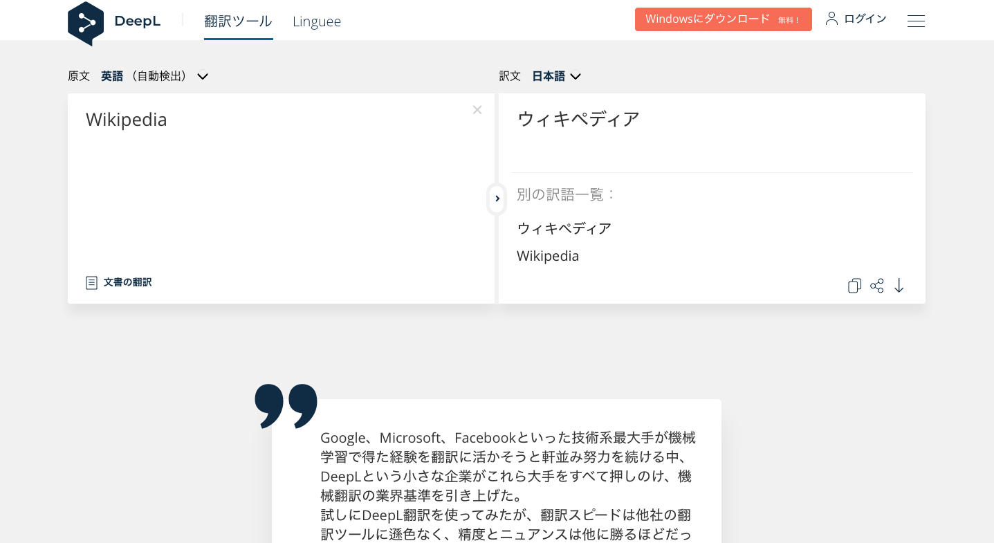 Screenshot image of the Japanese translation of the DeepL translation of "Wikipedia".